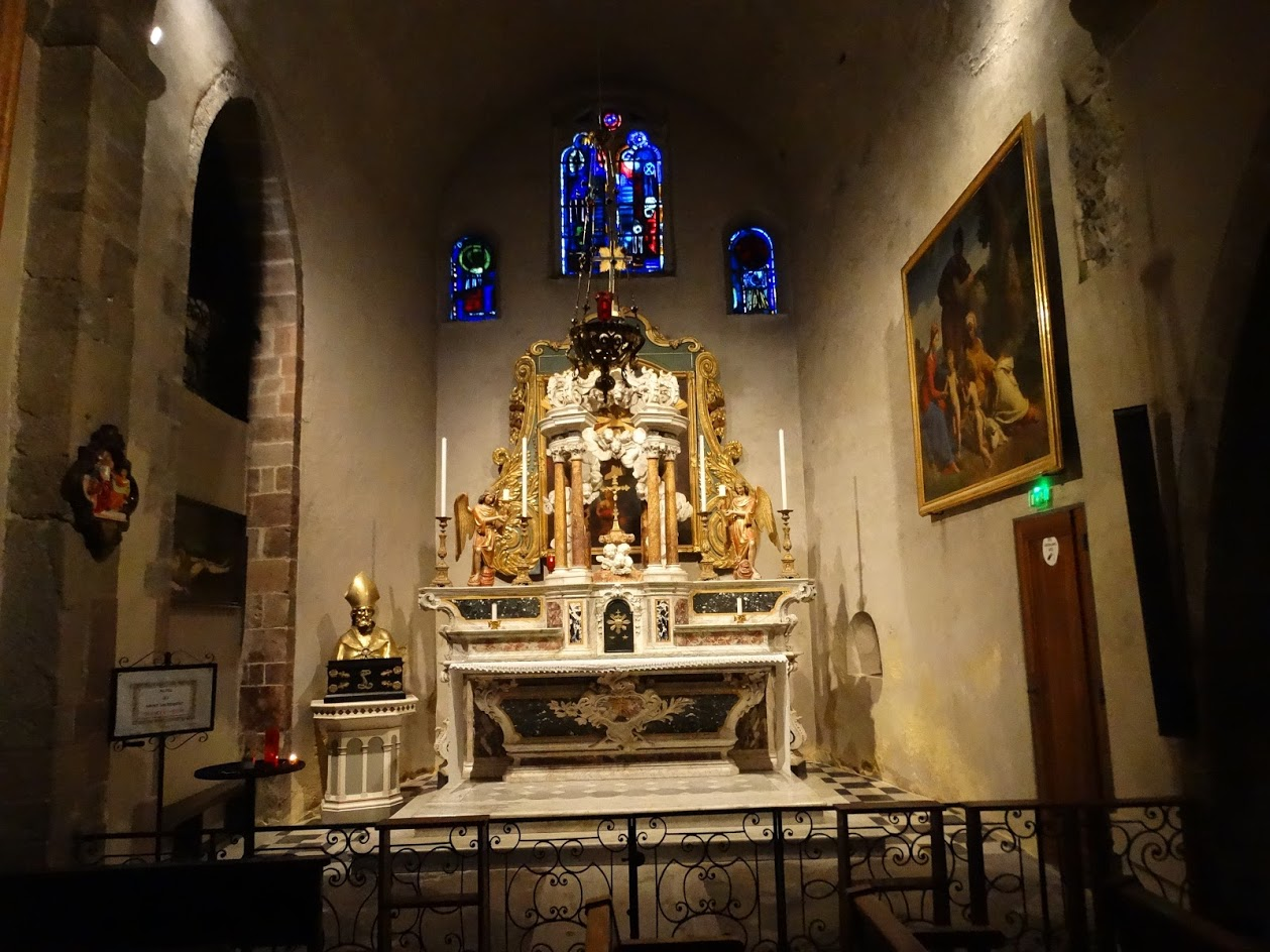 Cathedral Saint Leonce - Frejus